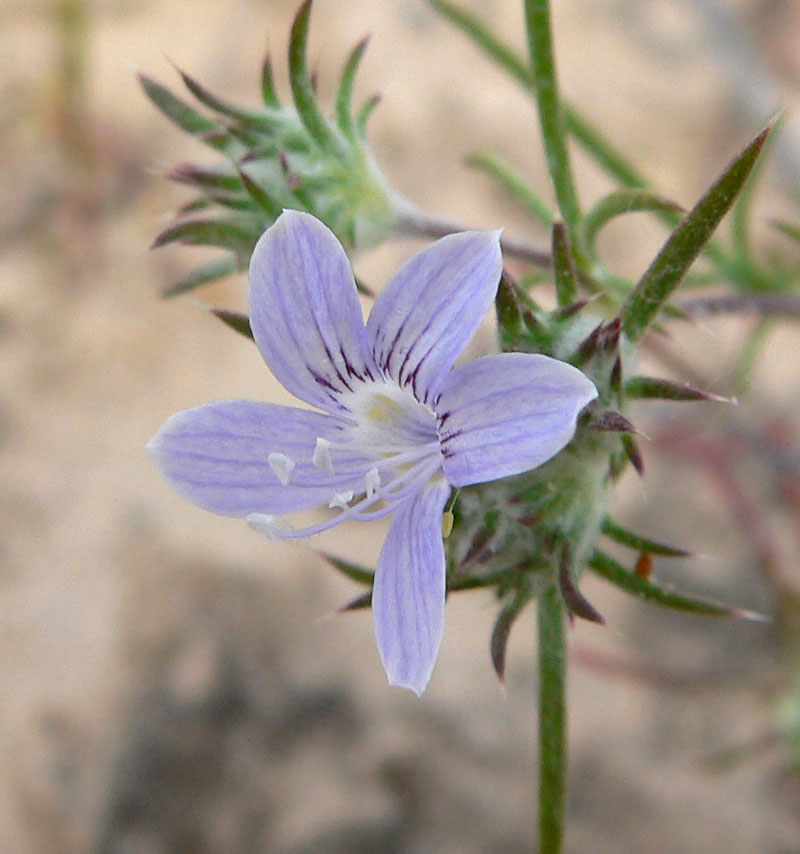 Eriastrum eremicum in the southern end of Red Rock Canyon near Blue Diamond, Nevada